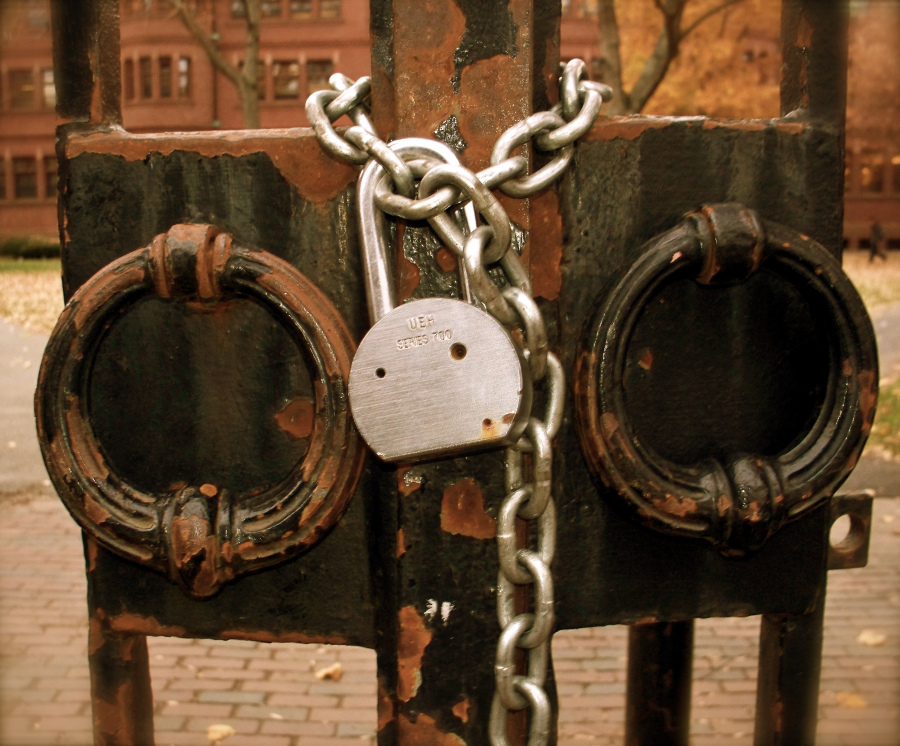 Harvard administration locked the gates of Harvard Yard in response to Occupy Harvard